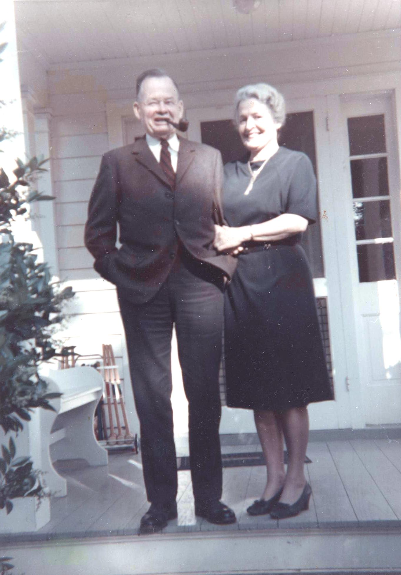 Retired LtGen Lewis Burwell "Chesty" Puller and his wife, Virginia, at their home. Circa 1970.